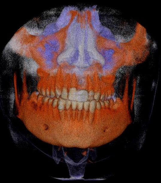 CBCT surface rendering of a skull